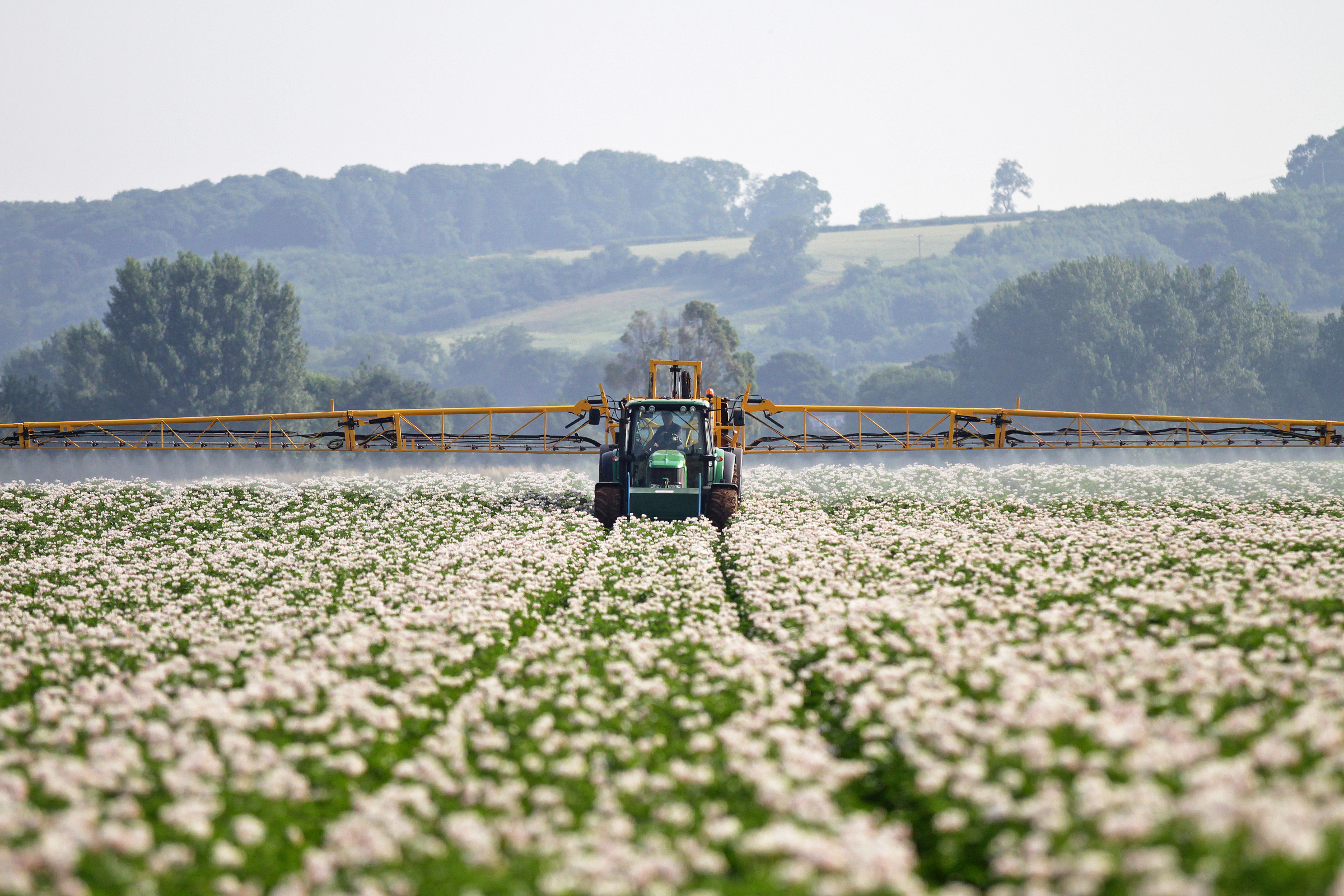 Spraying in a potato field for prevention of potato blight. Picture taken near Newark, Nottinghamshire.